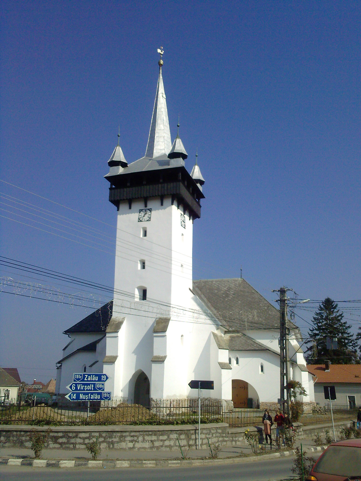 Salaj County, Crasna, Reformed Church